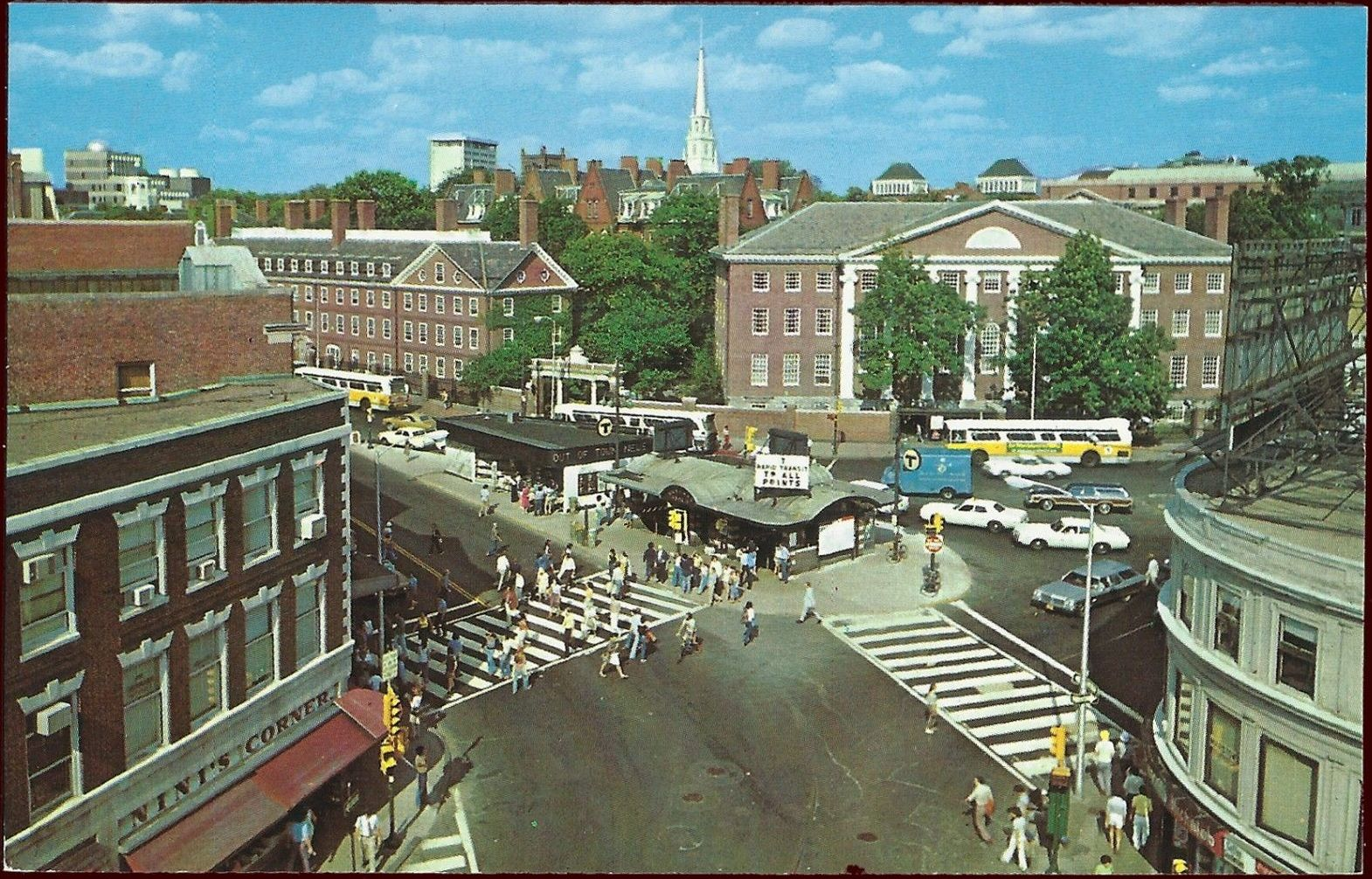 1970 postcard of Harvard Square, with the old subway kiosk and Out Of Town news at center